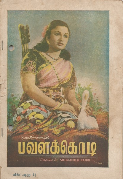 The front cover of the song book of Tamil language film Pavalakkodi (1949)